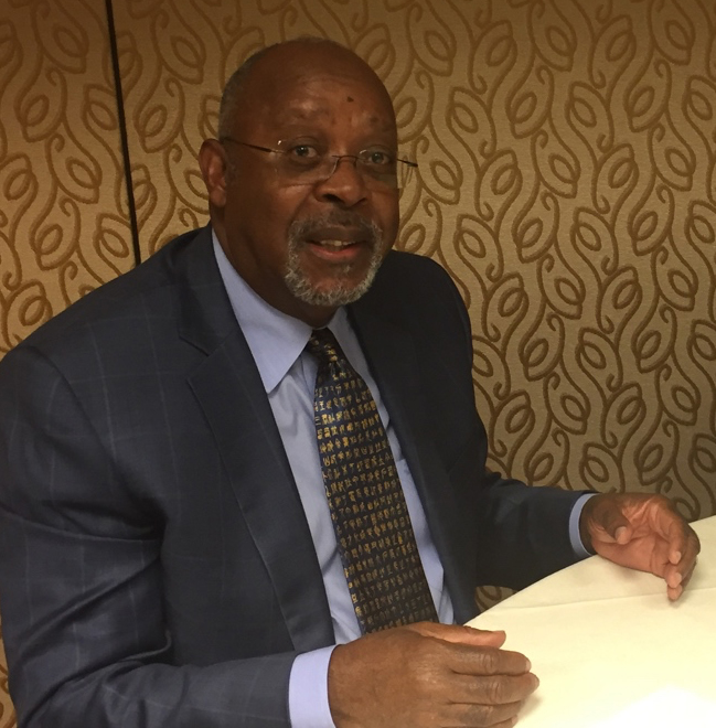 Willie Pearson Jr at a workshop in the Washington DC area in 2017 (with his permission)